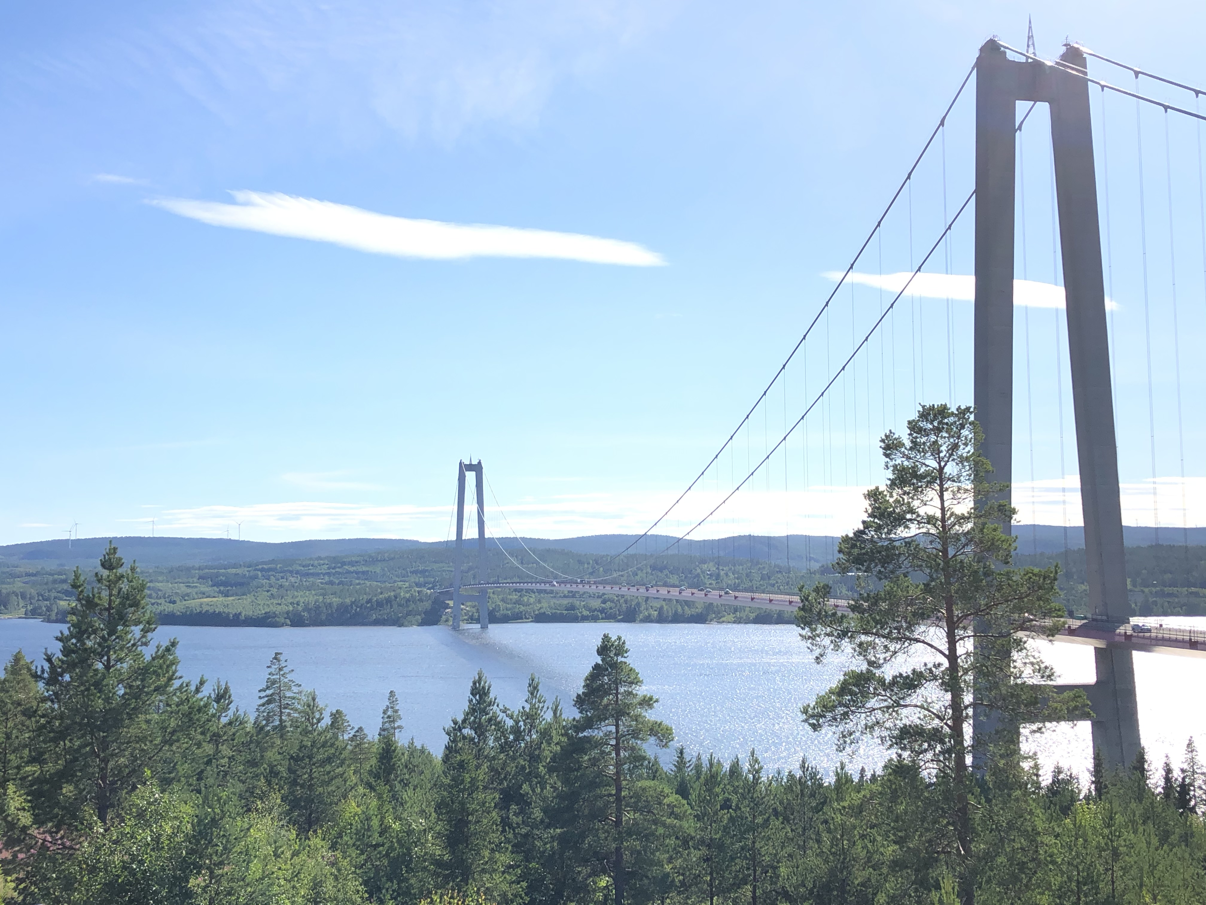 Crossing the Ångermanälven river, on the border between the municipalities of Härnösand and Kramfors.